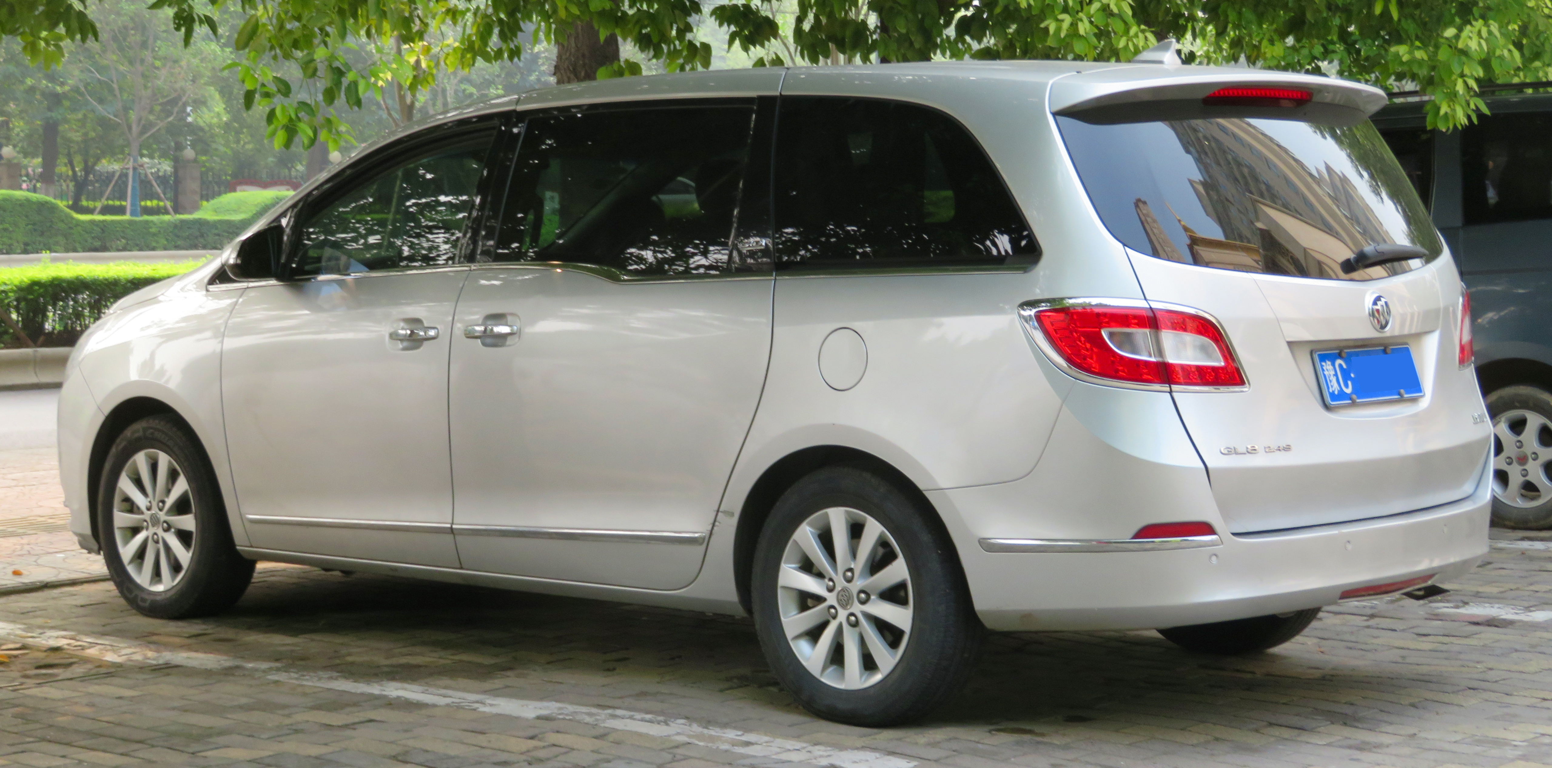 A 2013 Shanghai-GM Buick GL8 photographed in Luolong District, Luoyang, Henan province, China